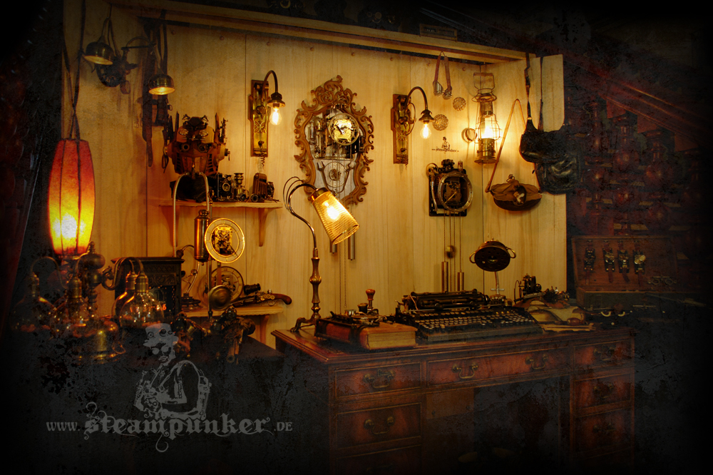 Exhibition at the first steampunk festival in Germany, the "Aethercircus" in Stade/ Hamburg in August, 2012